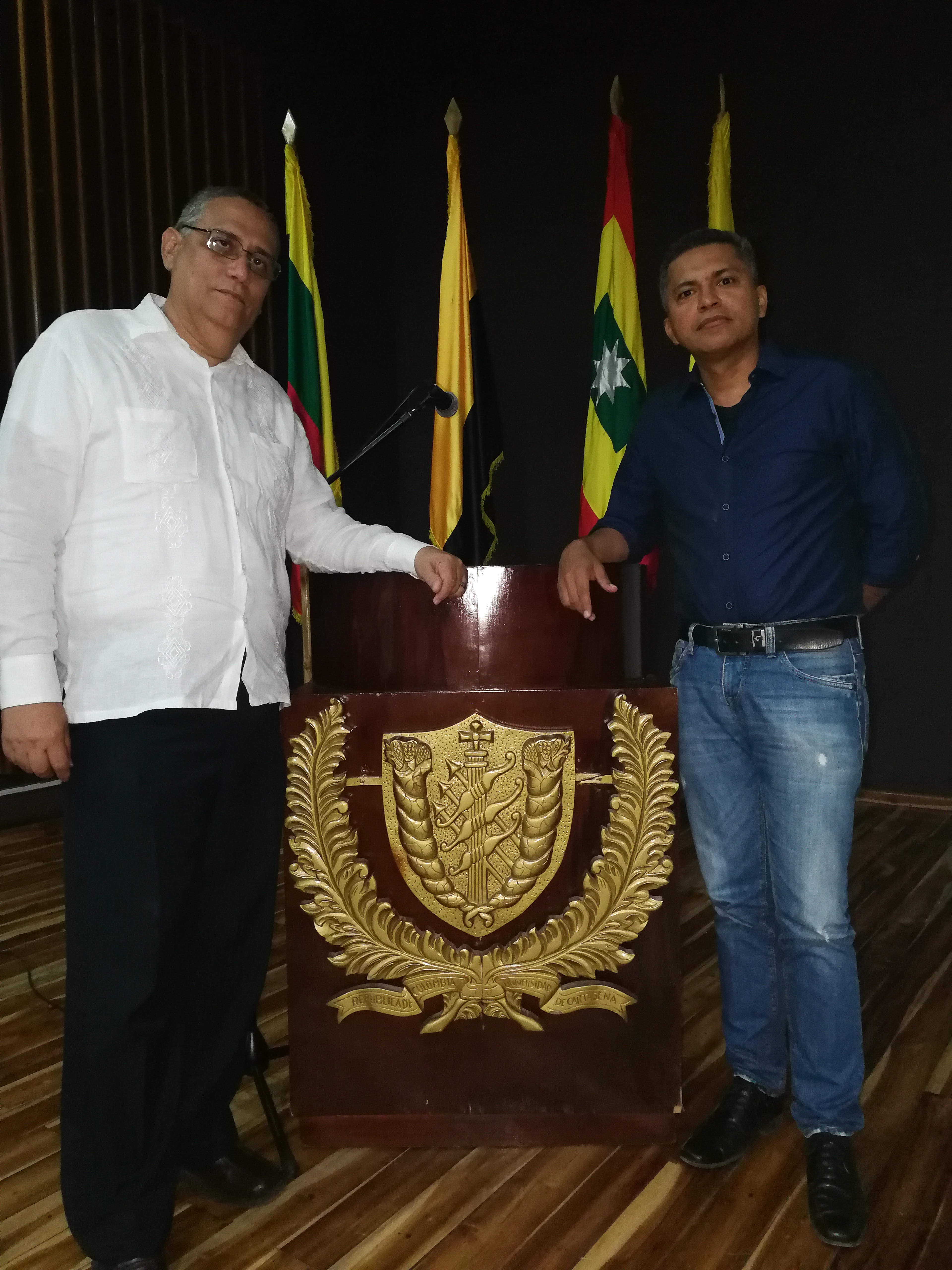 Perez-Capdevila and Carbal-Herrera